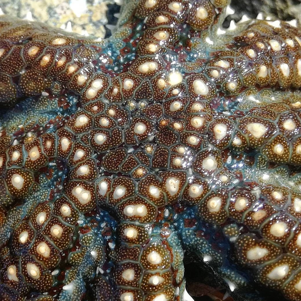 dorsal aboral surface of Astrostole scabra adult around 220mm diameter, Gordon Point Rocks, Scorching Bay, Wellington